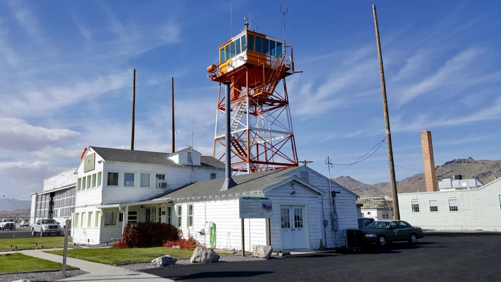 Wendover AFB Tower & Operations Building, photo by John Stanton 15 Oct 2016